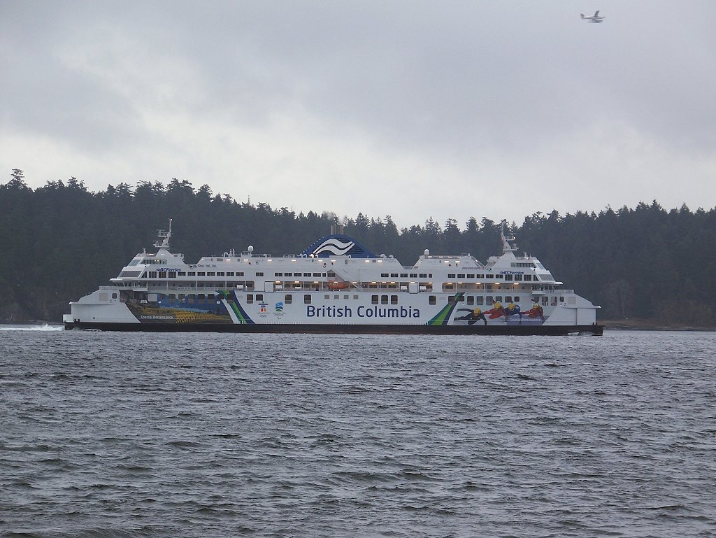 MV Coastal Renaissance entering Departure Bay on December 13, 2007. IMO Number: 9332755 MMSI Number: 316011407 Callsign: CFN4888 Length: 160 m Beam: 28 m